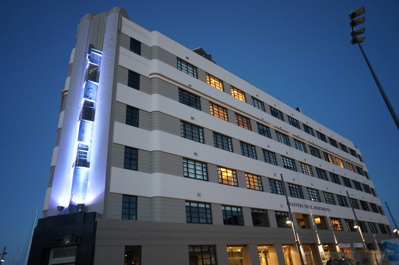 The 1938 Art Deco corner entrance of the former Herd Street Post Office building, now redeveloped as apartments. Copper detailing. See other photos pre-redevelopment in Wellington Art Deco album.